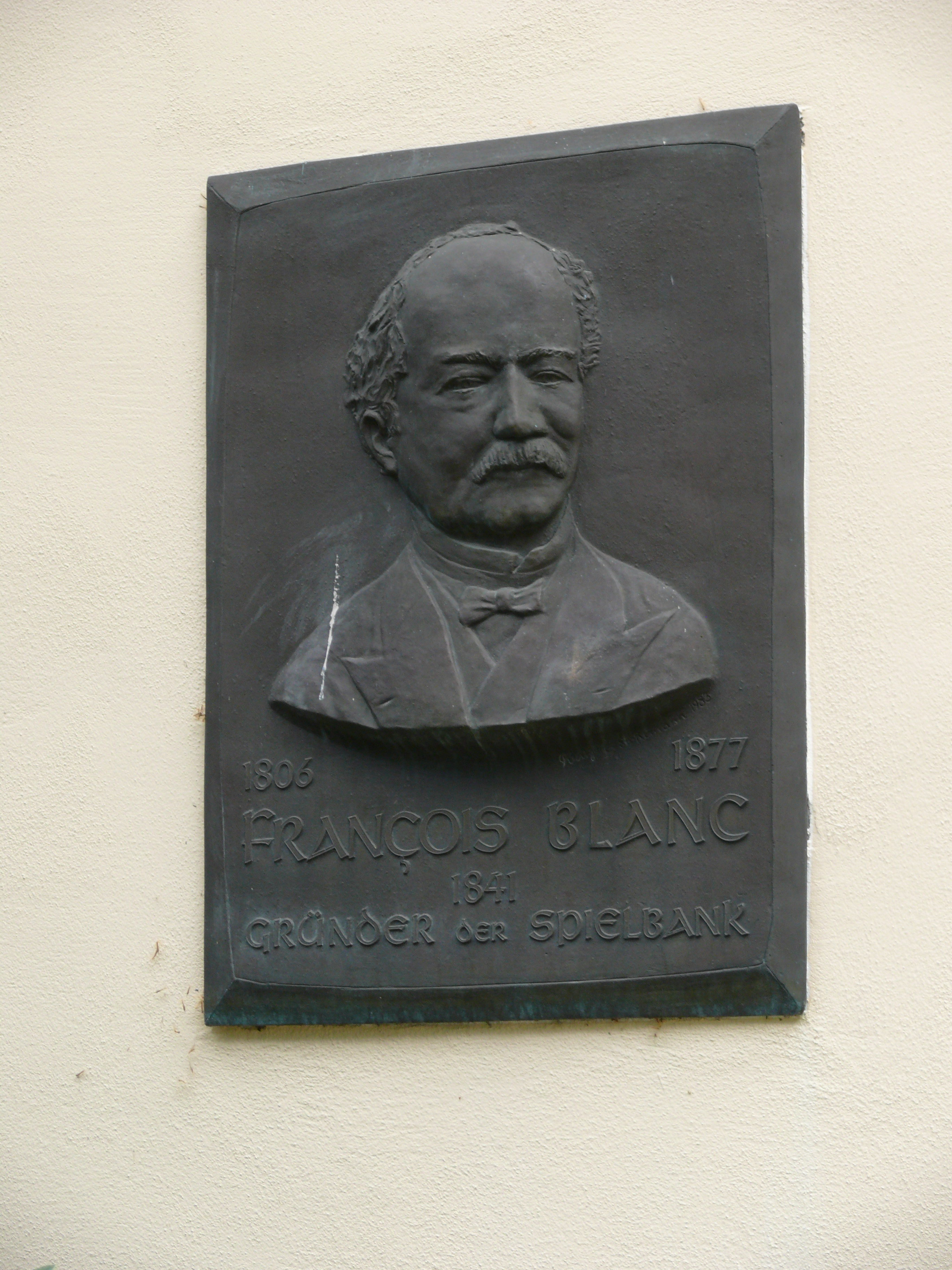 Commemorative plaque, François Blanc, founder of the casino in Bad Homburg, Hesse, Germany